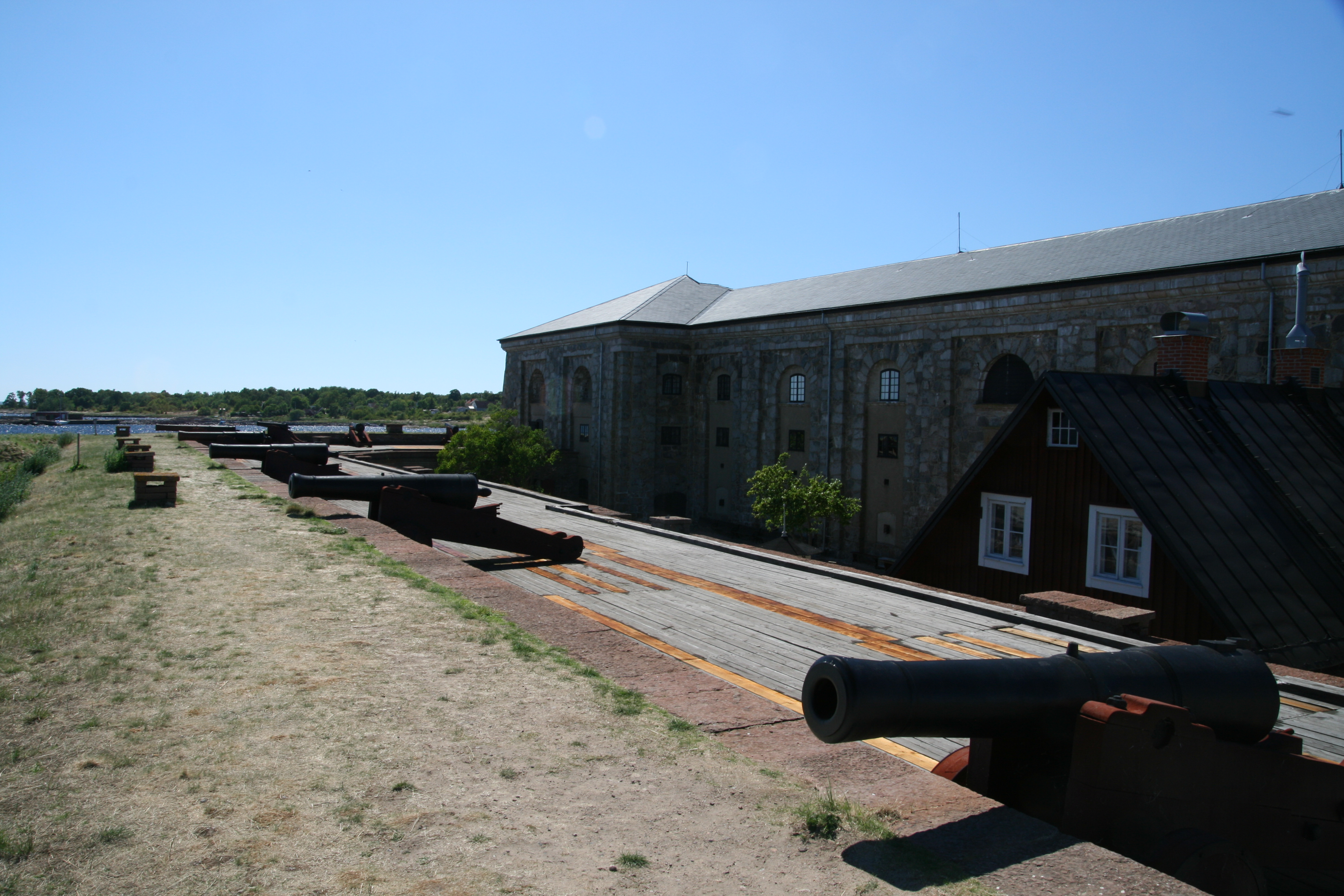 The sea-side outer wall naval fortress at Drottningskär on the island of Aspö in the archipelago of Karlskrona, Sweden.